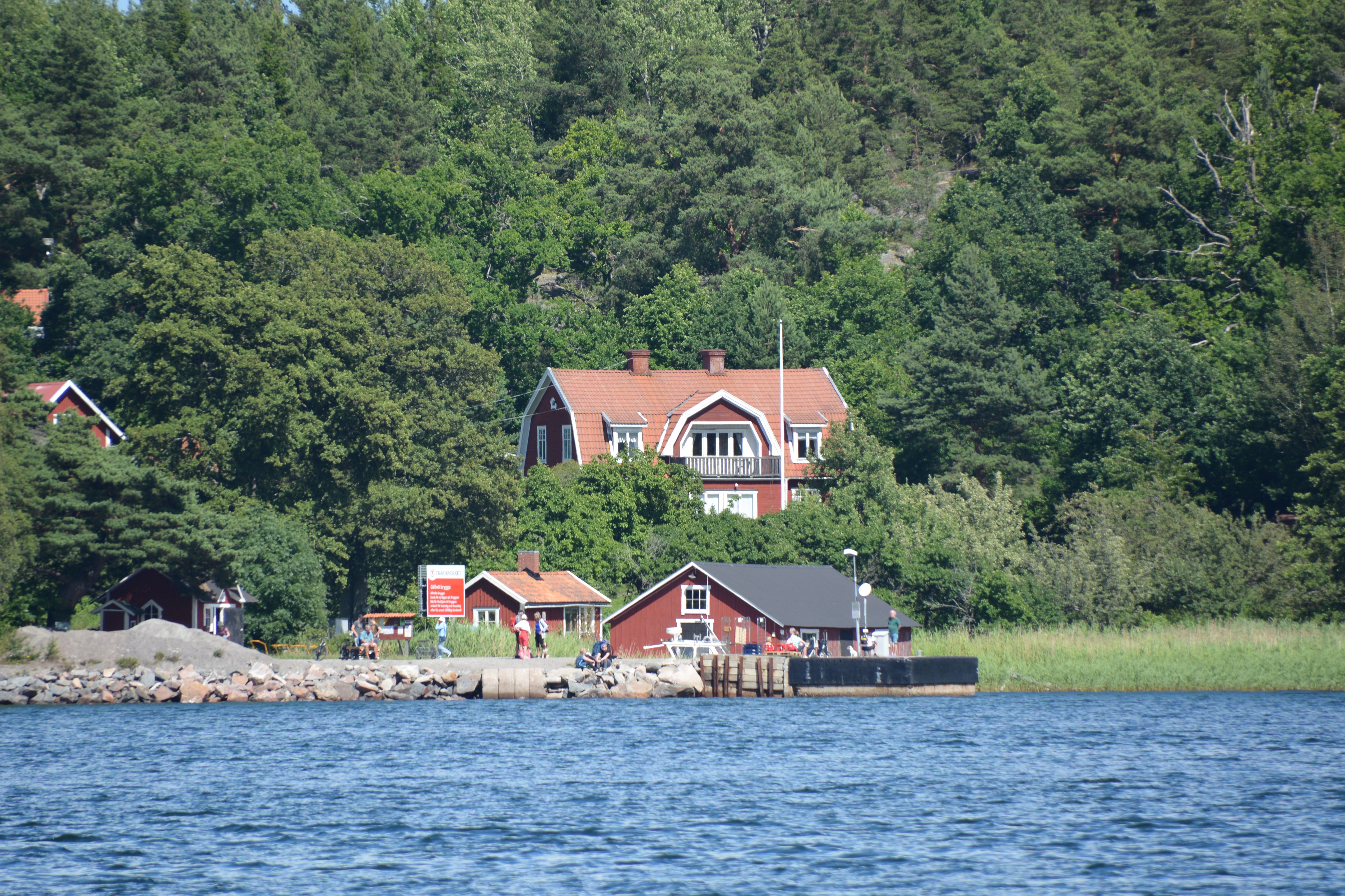 Gällnö ångbåtsbrygga, Söderby